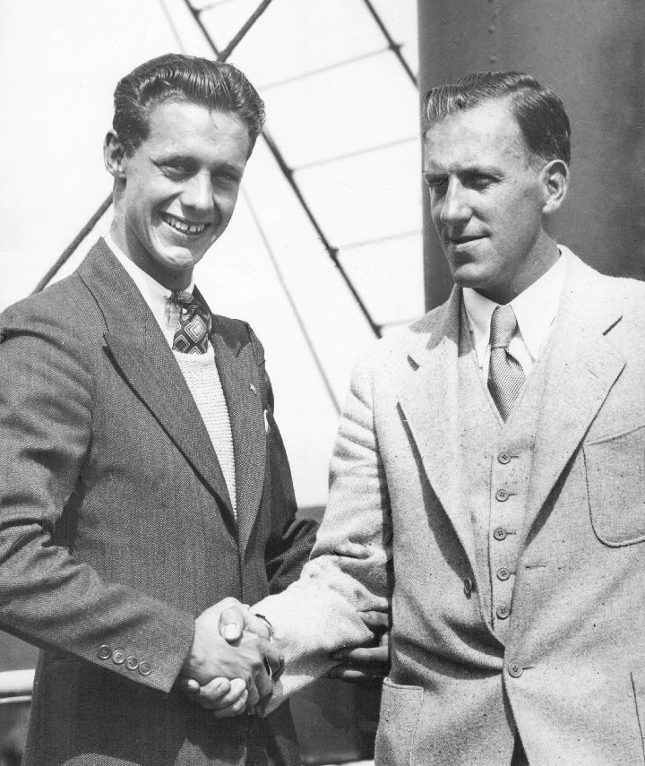 1931 Frank Kurtz & Coach Clyde Swendsen Won 2nd Place on High Dive Press Photo